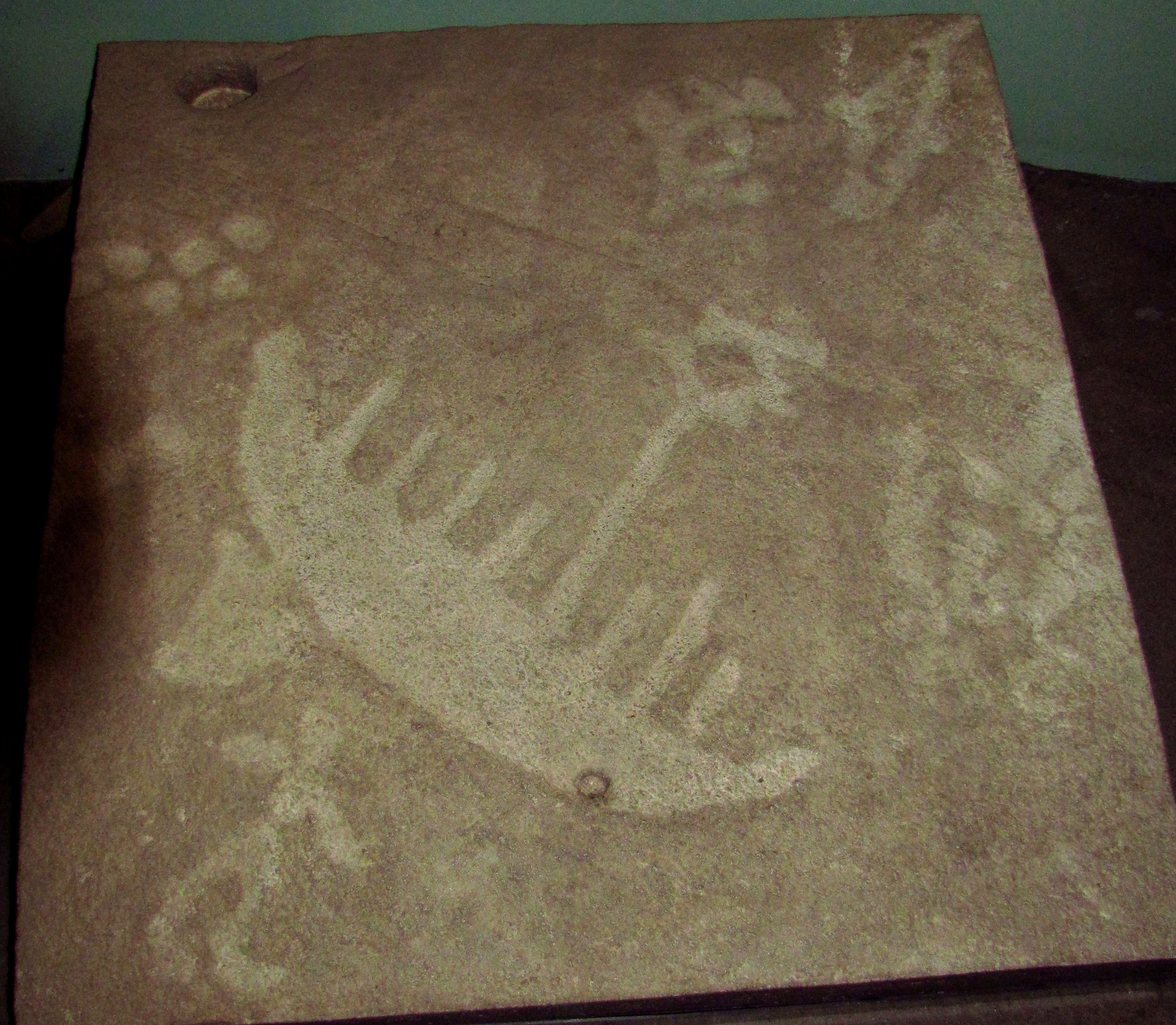 Cast of petroglyphs in Learning Centre, Petroglyphs Provincial Park, Woodview, Ontario, Canada